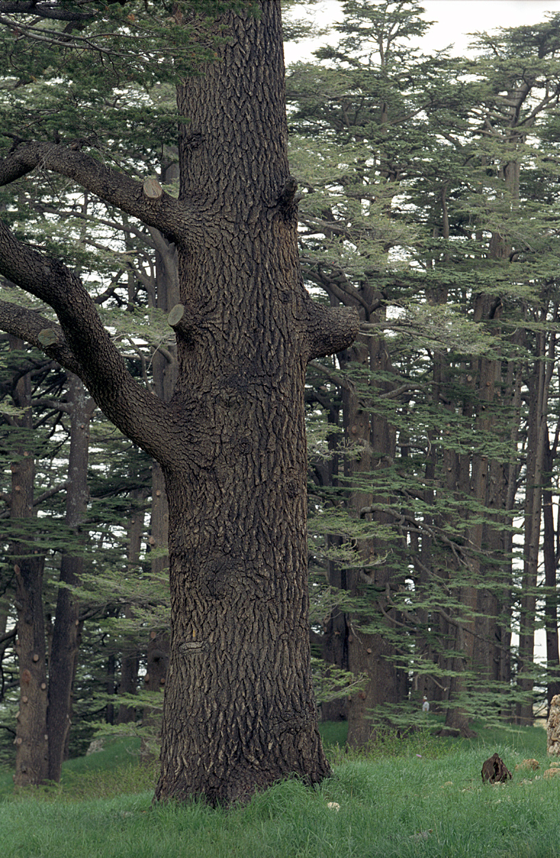 Cedars of God